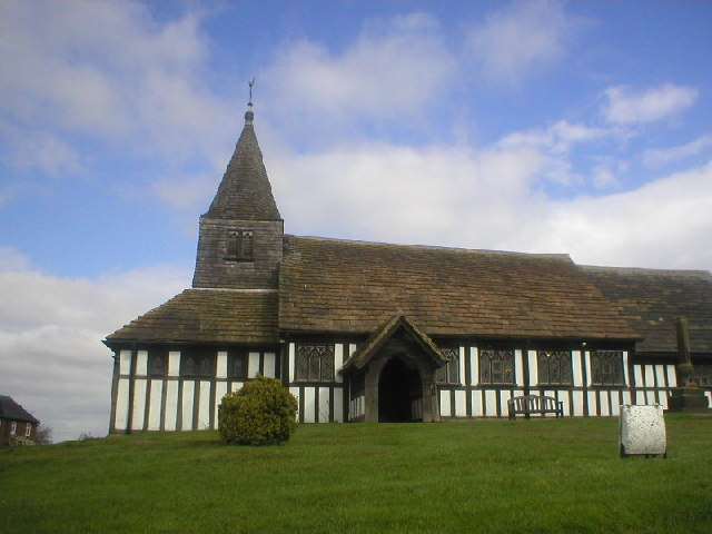 Church at Marton